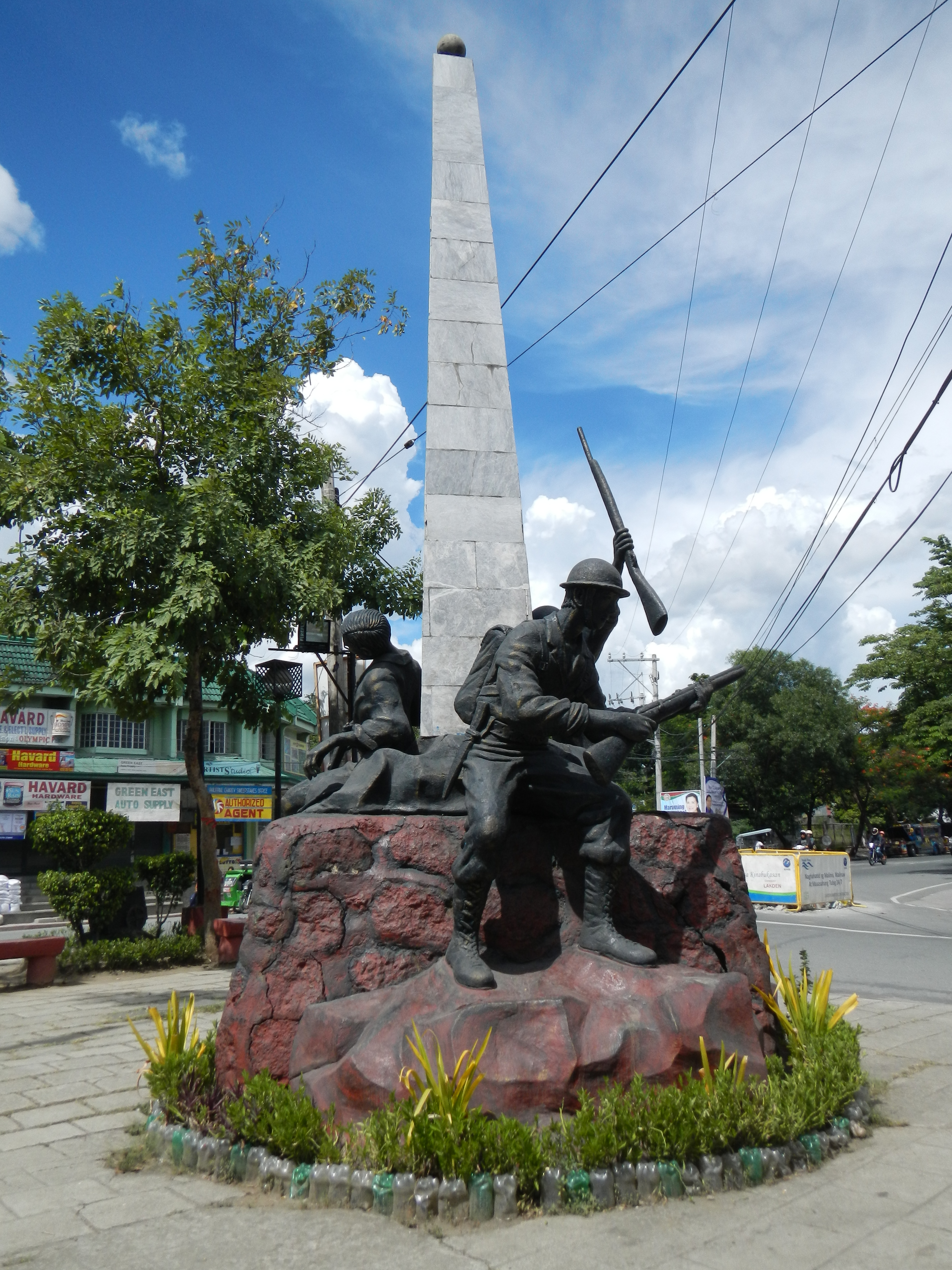 Rare, raw, unedited and original photos of Angono Second World War Memorial and Heritage statues at Crossing, Junction[1] Coordinates: 14°31'56"N 121°9'8"E --Barangay San Isidro[2] Coordinates: 14°32'22"N 121°9'43"E --Angono, Rizal[3] is a first class urban municipality in the province of Rizal, Philippines. It is known as "Arts Capital of the Philippines", and located 30 kilometres (19 mi) east of Manila. According to the latest census of August 1, 2007, it has a population of 97,209 inhabitants (or 4.26% of Rizal province's total population of 2,284,046) in 15,740 households.Website ---------[N.B. June 2, Sunday day, 2013 Photography of Angono, Rizal[4], Binangonan, Rizal[5] and Cardona, Rizal[6]: 80% cloudy and 20% sunny weather using my Nikon AW 100 waterproof shockproof camera. From Bulacan at 10:45 a.m., I took photo at 12:25 pm of Goldenhills Jewelry of Antonio Z. Atienza, Jr.[7] in Robinsons Ortigas; and reached Angono, Rizal junction, crossing at 2:06 pm, then took photos of Binangonan Municipal Hall at 2:44 pm; I finished Cardona, Rizal photography at 5:17 p.m., and arrived at Bulacan at 9:30 pm after 3+ hours of travel by bus, and started uploading via slow internet at 9:50 pm - I hereby certify that these rarest, raw, original and unedited photos are exclusive for Commons and Wikipedia never uploaded in any Internet or any site, and for the public domain without any condition.]